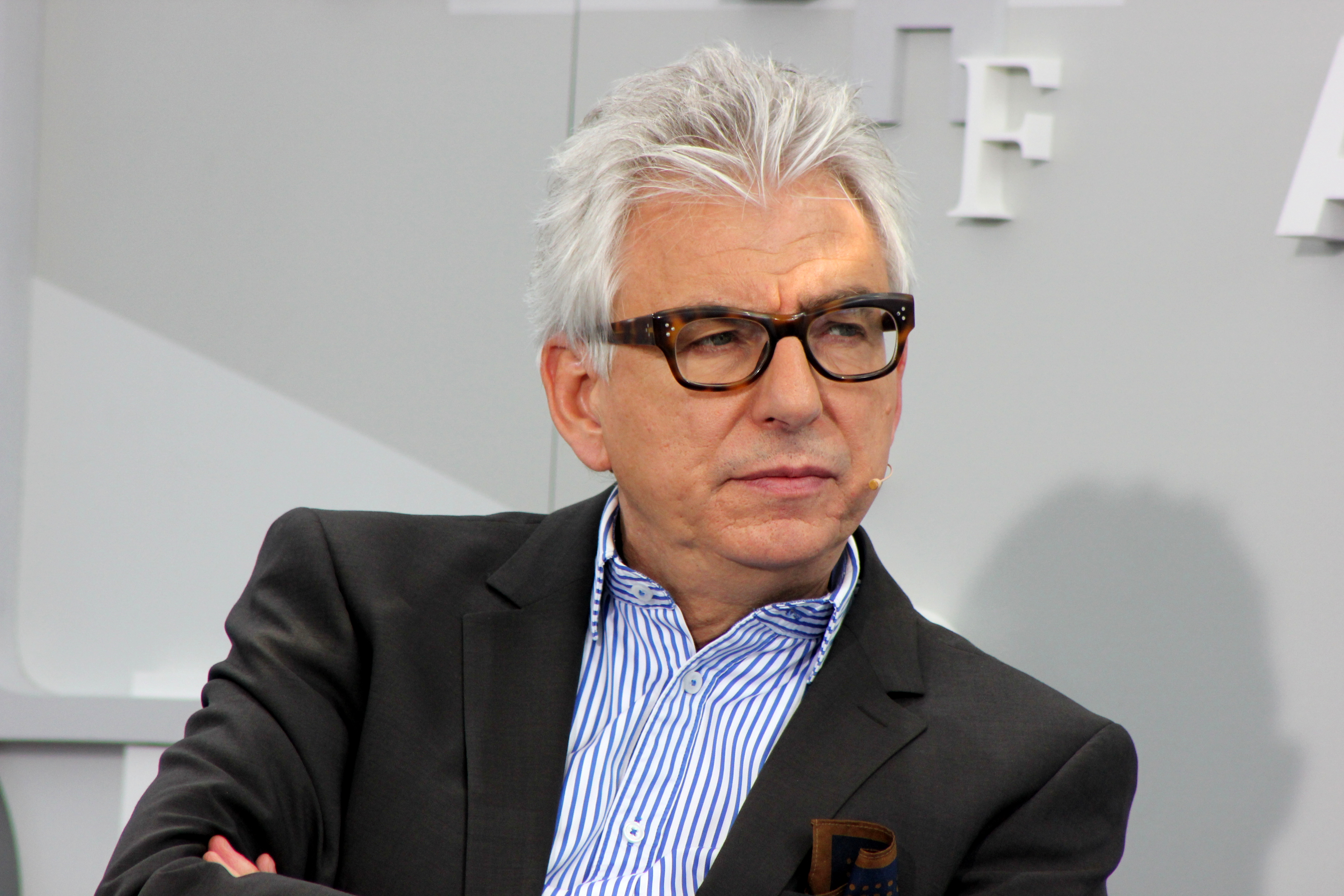 Stephan Wackwitz, Leipzig book fair 2014